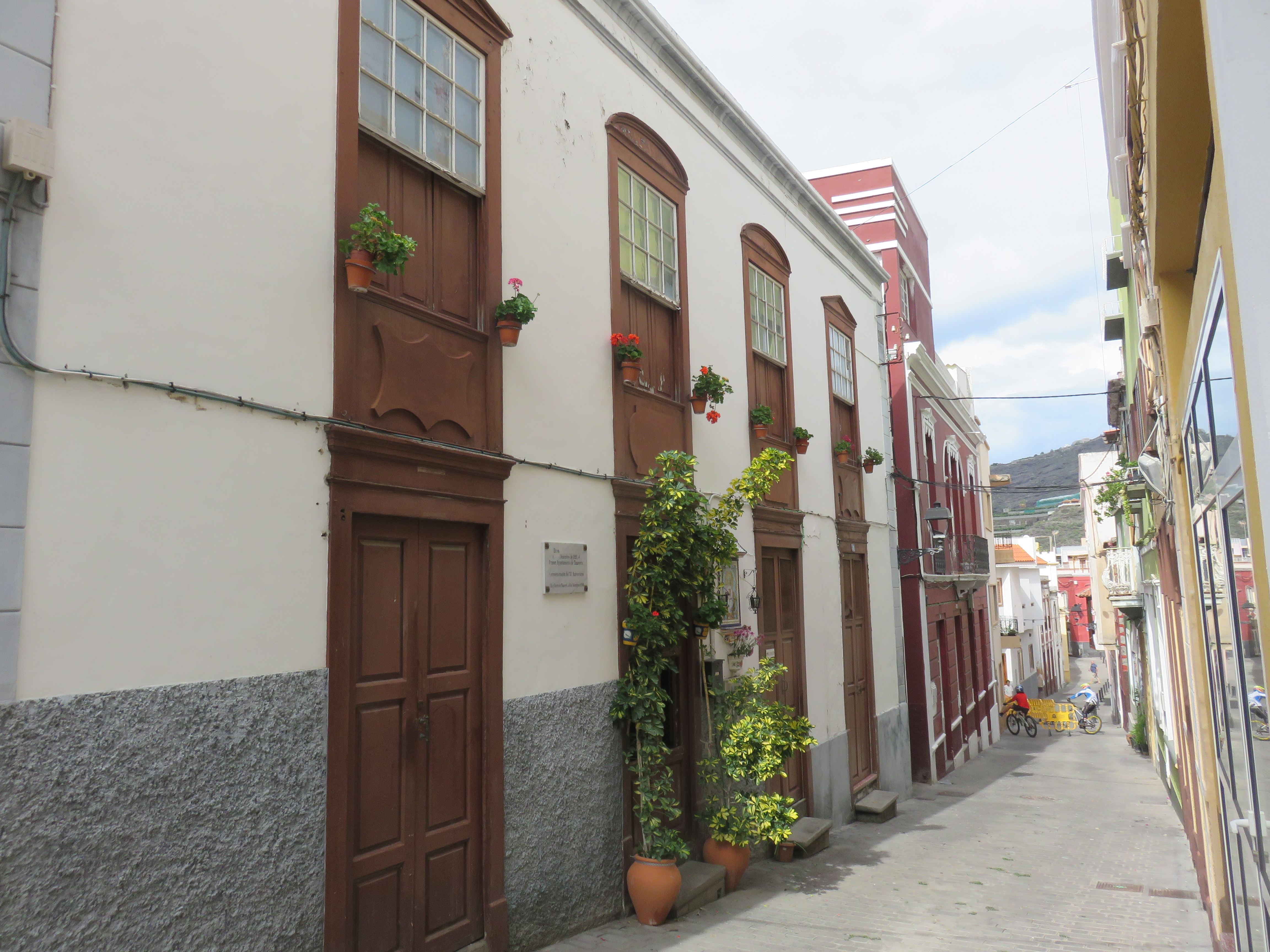 First Town Hall in Tazacorte of 1925